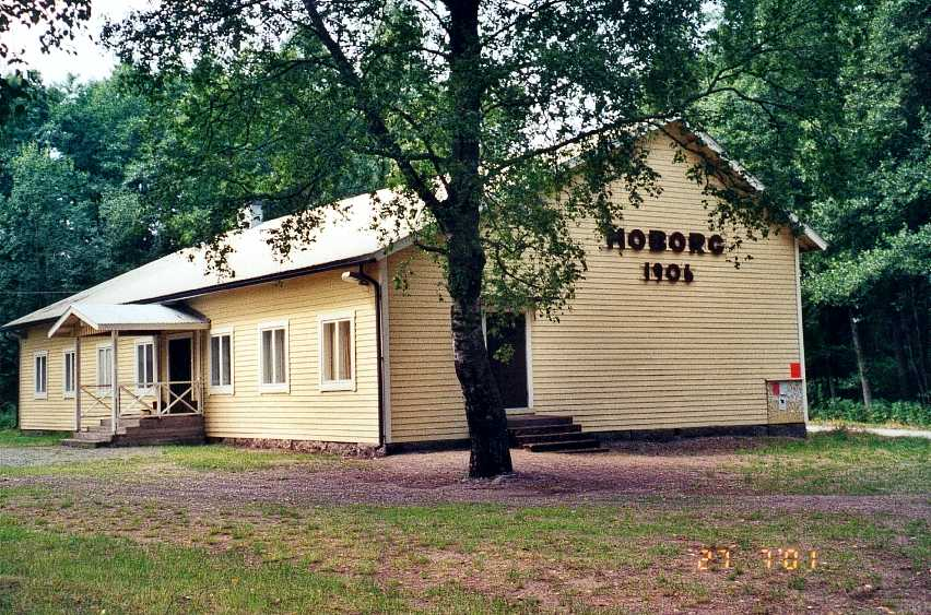 Youth club hous Moborg in Pyhtää, Finland